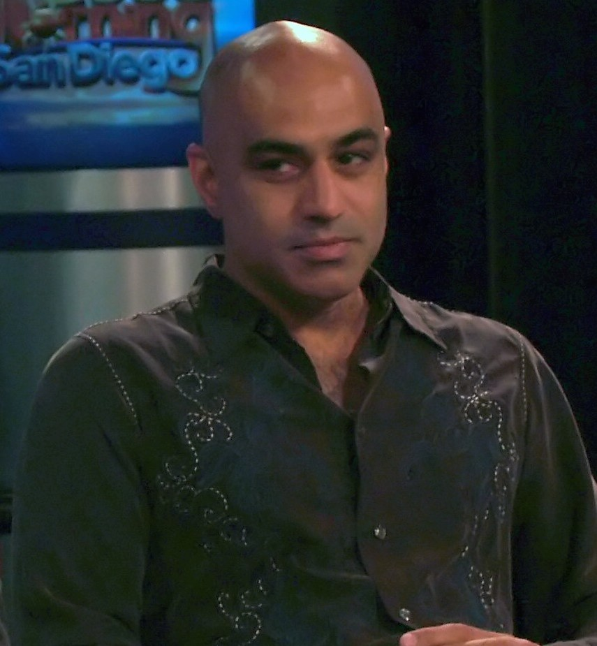 A photo of actor Faran Tahir taken by Phil Konstantin in San Diego, California on May 30, 2008.